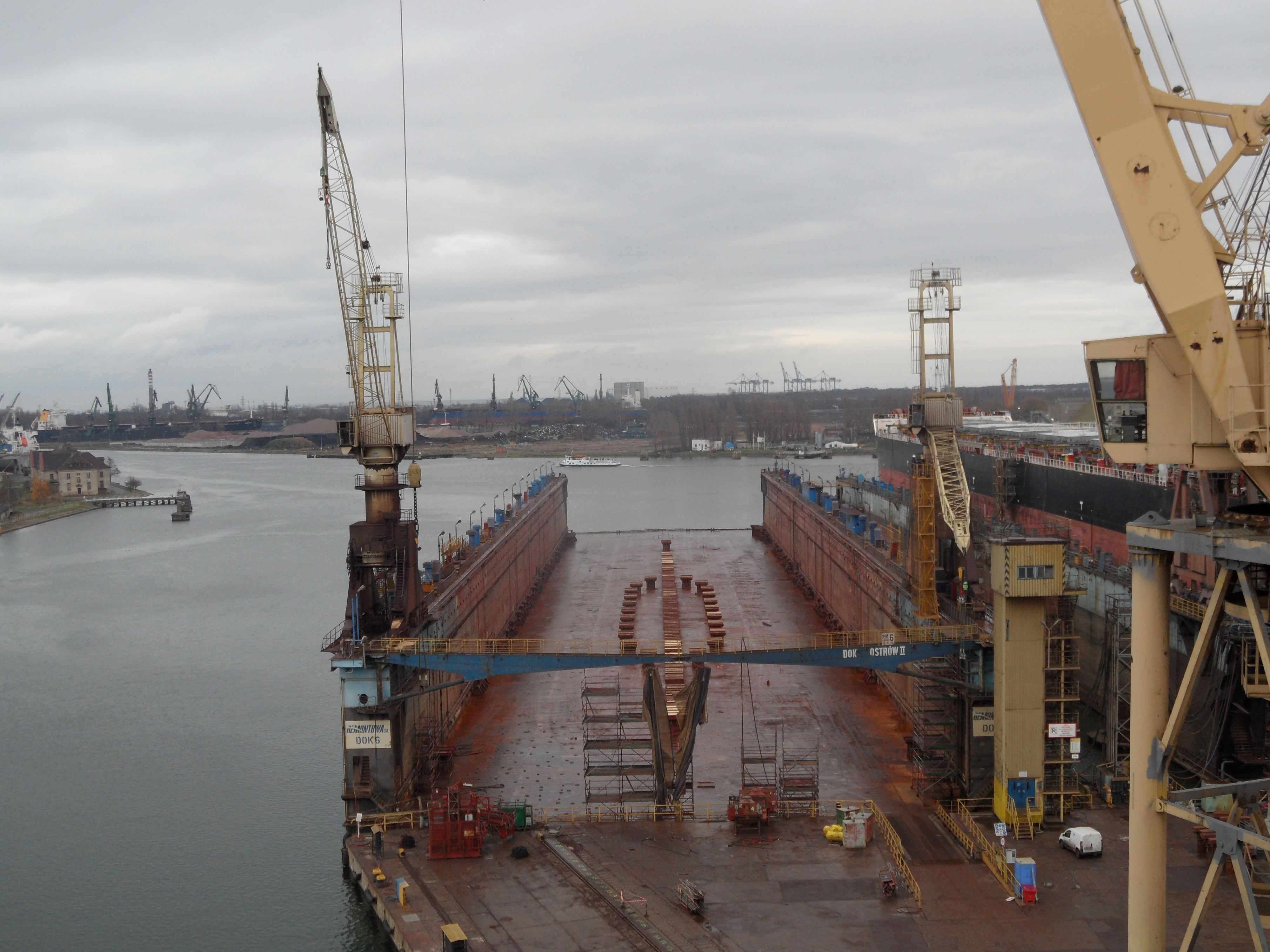 Floating dock in Gdansk Shipyard "Remontowa"